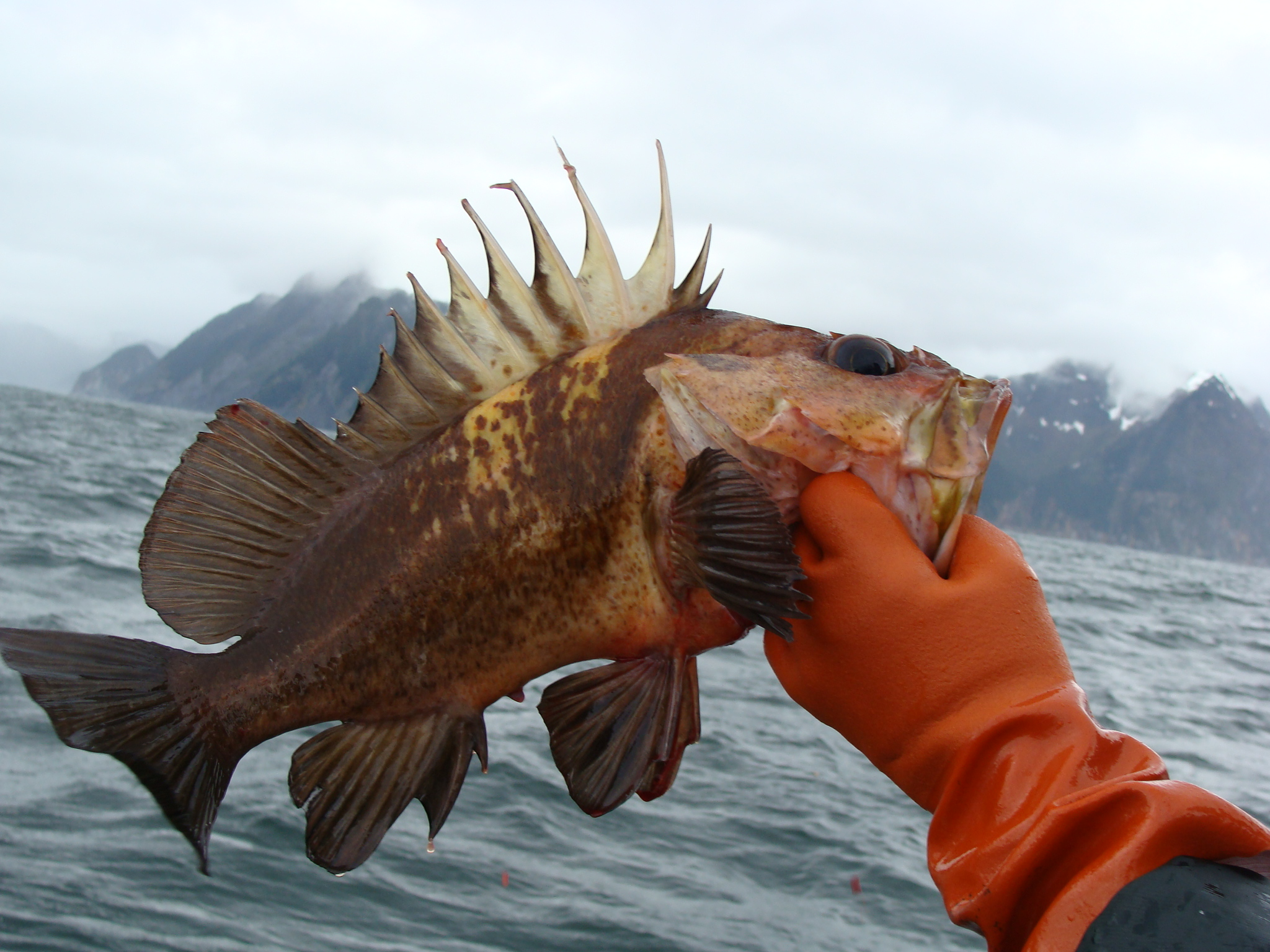 Quillback Rockfish just caught in the Gulf of Alaska